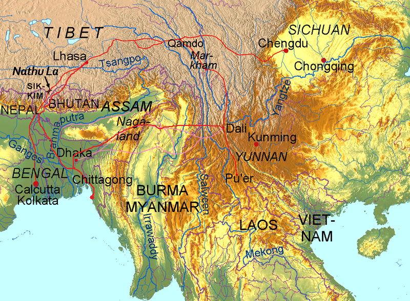 The Tea-Horse-Road, one of the ancient Tea routes, with variants itself. The courses are drawn according to a combination of informations from Chinaexpat: The ancient Tea-Horse-Road, and informations from Andrées Weltatlas from 1880, printed, when the route was a main traderoute, still.